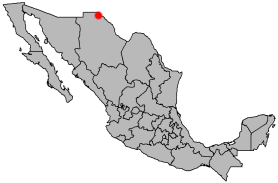 Locator map of Ciudad Juárez, within the Municipality of Juárez, in the state of Chihuahua, northern Mexico.